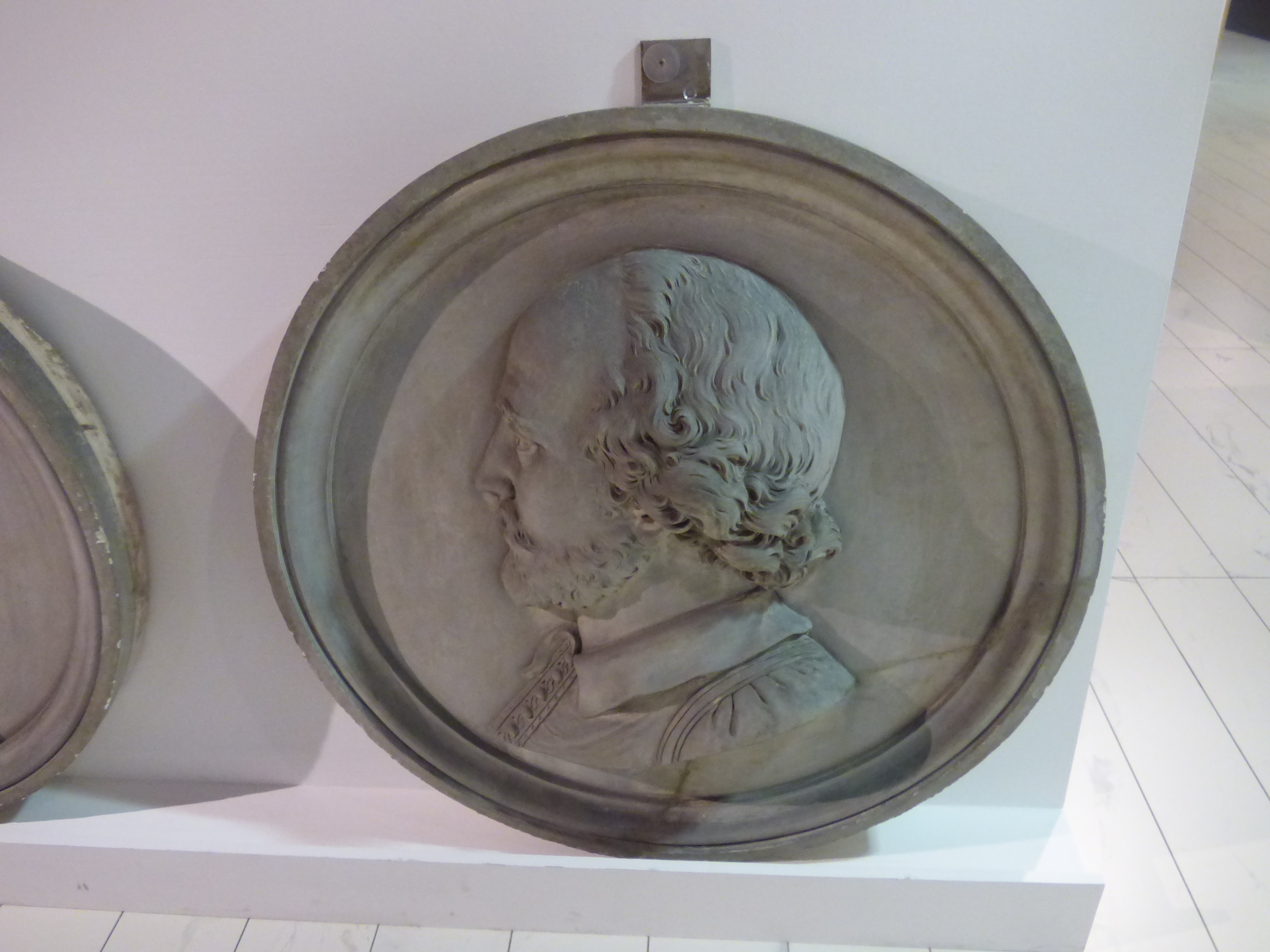 A new Shakespeare exhibition has opened up in The Gallery called Our Shakespeare. A free exhibition, it opened on the 22nd April 2016 (a day before the 400th anniversary of William Shakespeare's death in Stratford-upon-Avon) and will close on the 3rd September 2016. The Theatre Royal Plaques. Plaques of William Shakespeare and David Garrick from the Theatre Royal Birmingham. The theatre was demolished in 1956. They have been preserved at the Library of Birmingham. They could have been on the Theatre Royal in the late 18th century. This one is of William Shakespeare